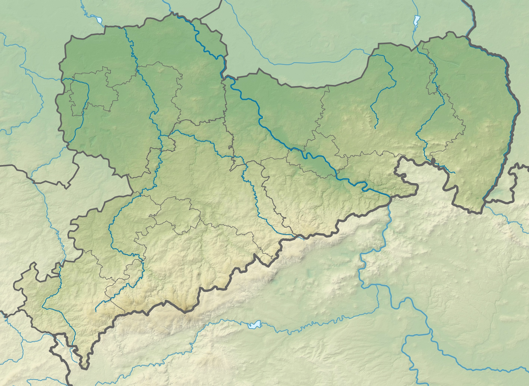 Physical Location map Saxony, Germany. Geographic limits of the map: N: 51.721° N S: 50.101° N W: 11.797° O E: 15.101° O